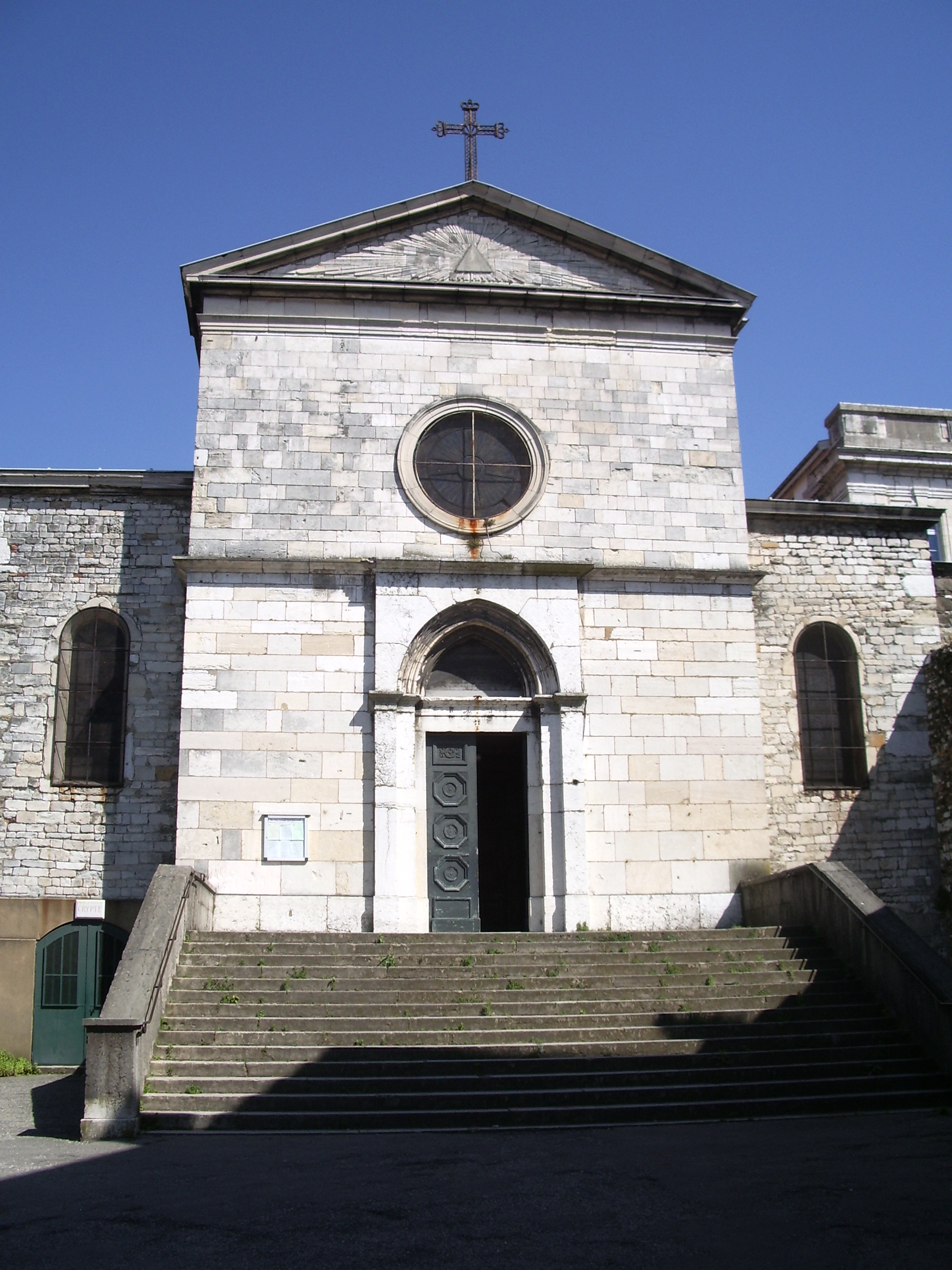 View of the Church Saint-Irénée of Lyon